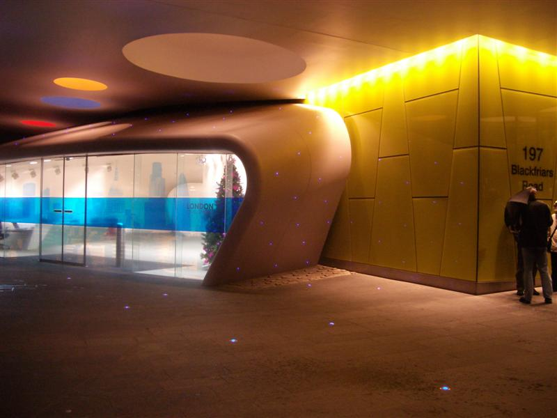 Entrance of the London Development Agency on 2nd january 2007. Photograph : Medy SEJAI